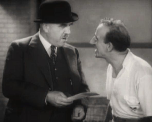 Fred Kelsey (left) & Jimmy Durante in Speak Easily - cropped screenshot